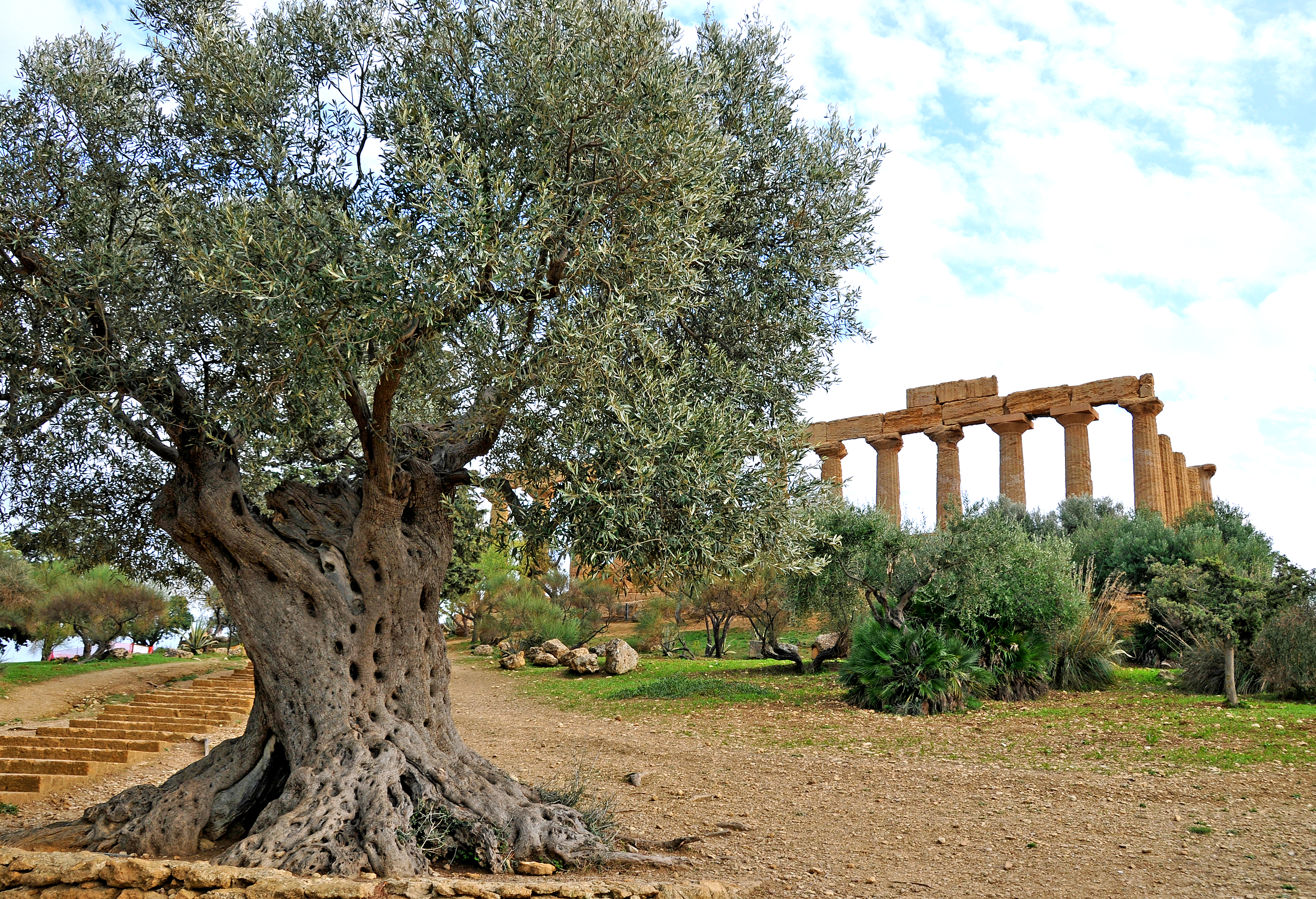 PLEASE, no multi invitations, glitters or self promotion in your comments. My photos are FREE for anyone to use, just give me credit and it would be nice if you let me know. Thanks One of Sicily’s most famous historical attractions is without a doubt the Valley of the Temples, just outside Agrigento. Modern Agrigento used to be the Greek city of Akragas, a colony of settlers mainly from Rhodes and Crete. The city, supposedly founded in 582 BC, soon became prosperous and, in its glory days, was one of the most important and most culturally advanced Greek cities in the Mediterranean. However, as it grew more and more successful, so did its rivalries with other Greek colonies, especially that of Siracusa. In 406 BC Hannibal and the Carthaginians, working in partnership with Dionysius of Siracusa, laid siege to the city. After holding out for eight months, Akagras finally fell and its citizens were removed to Gela. Later, they were allowed to return but were prohibited from fortifying their town and had to pay taxes to Carthage. After a relatively peaceful and undistinguished period, Akagras was thrown into the First Punic War (264 BC) on the side of the Carthaginians and was defeated by the Romans in 210 BC. Tree is over 800 years old.